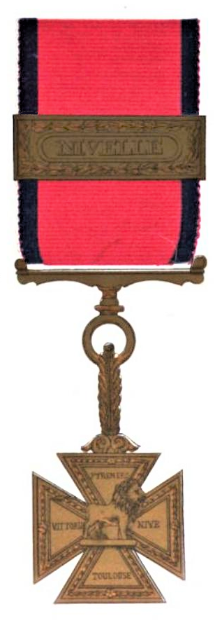 Illustration of the Gold Cross of the Army Gold Medal, issued to senior British Army officers during the Napoleonic Wars